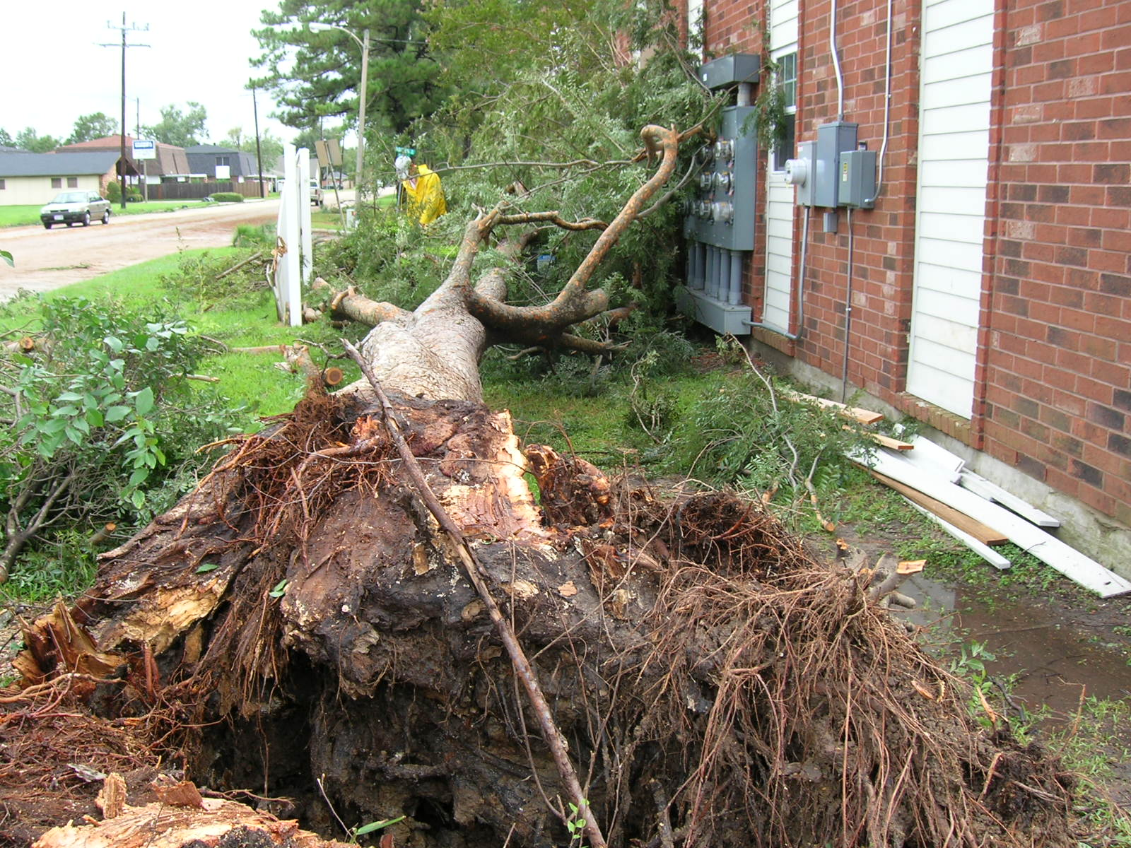 Hurricane Humberto (2007) damage in Southeast Texas